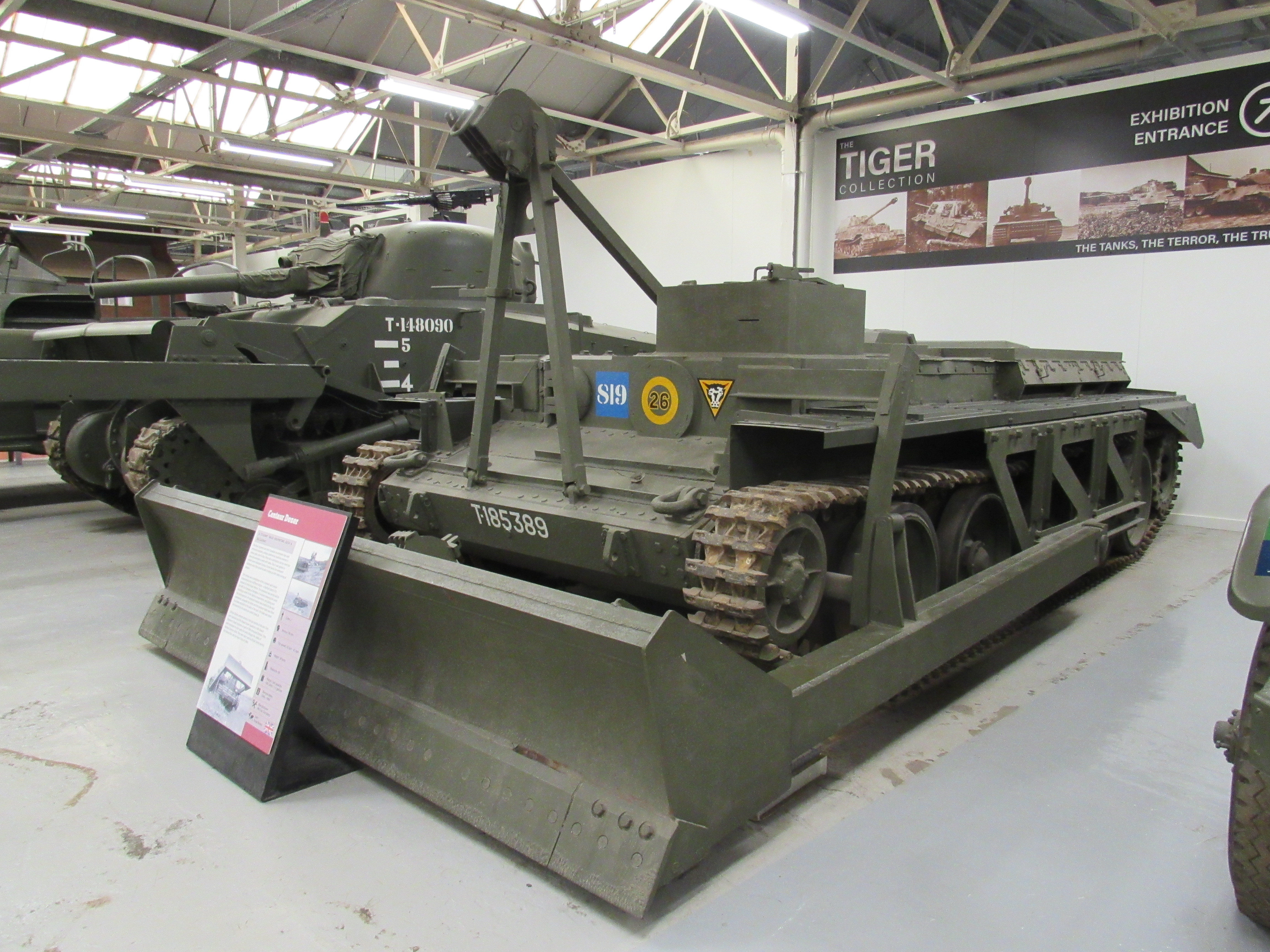 Taken in Bovington Tank Museum